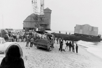 The first of two halves of the Old Harbor Life-Saving Station is being lifted off of a barge after being transported from Chatham to Race Point Beach in Provincetown, where it would be rehabilitated as a Life-Saving Museum.